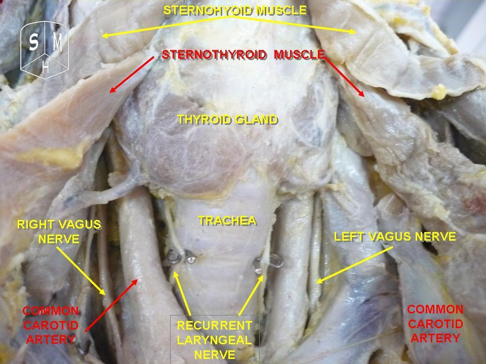 Thyroid gland